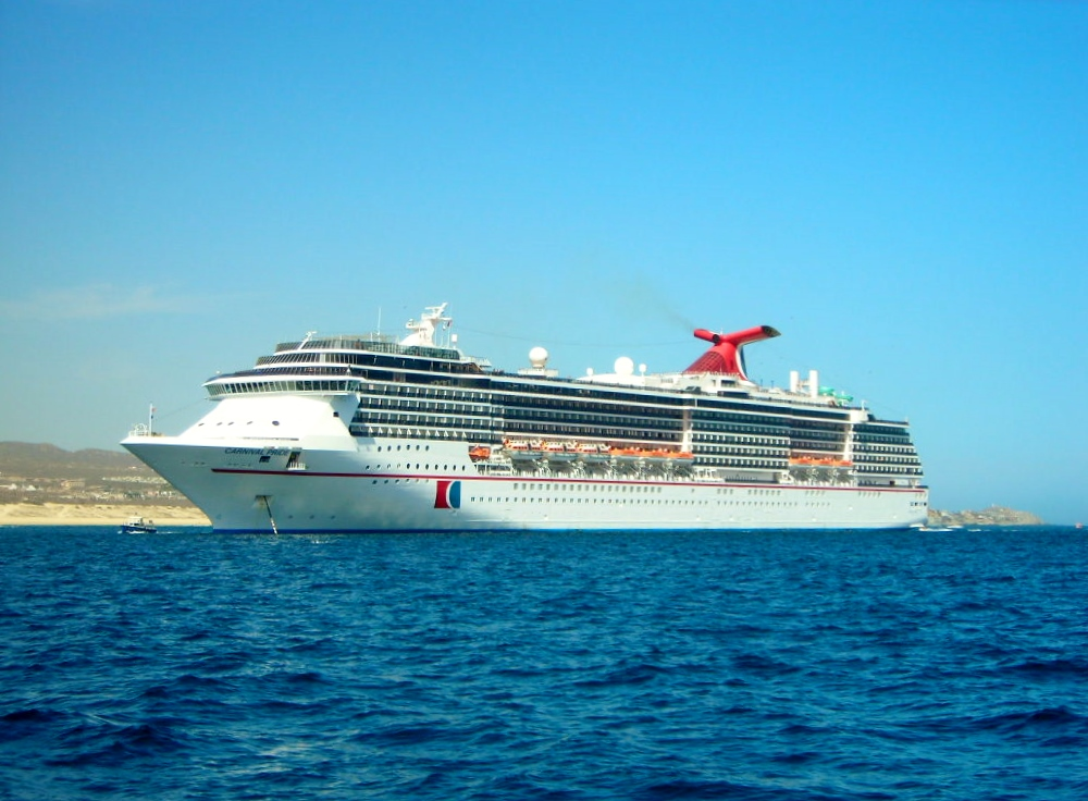 Carnival Pride docked in Cabo San Lucas.